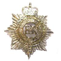 Royal Corps of Transport regimental badge as worn in berets, No.2 uniform lapels and hats, also on regimental belts.